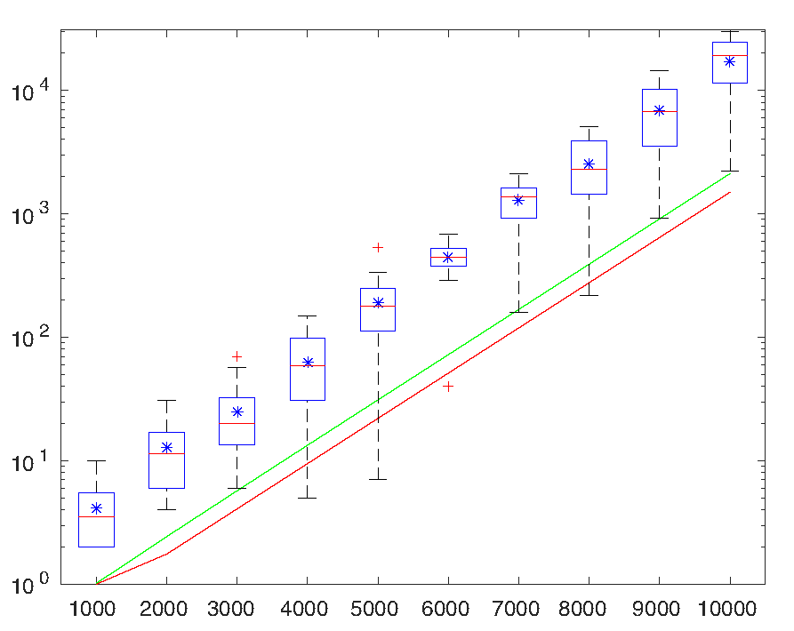 Lengths N of pairwise almost orthogonal chains of vectors that are independently randomly sampled from the n-dimensional cube [−1,1]n as a function of dimension, n. A point is first randomly selected in the cube. The second point is randomly chosen in the same cube. If the angle between the vectors was within π/2 ±0.037π/2 then the vector was retained. At the next step a new vector is generated in the same hypercube, and its angles with the previously generated vectors are evaluated. If these angles are within π/2 ±0.037π/2 then the vector is retained. The process is repeated until the chain of almost orthogonality breaks, and the number of such pairwise almost orthogonal vectors (length of the chain) is recorded. For each n, 20 pairwise almost orthogonal chains where constructed numerically. Distribution of the length of these chains is presented. Boxplots show the second and third quartiles of this data for each n, red bars correspond to the medians, and blue stars indicate means. Red curve shows theoretical bound, N ≤ e ϵ 2 n 4 [ − ln ⁡ ( 1 − θ ) ] 1 2 {\displaystyle N\leq e^{\frac {\epsilon ^{2}n}{4 [-\ln(1-\theta )]^{\frac {1}{2 } , and green curve shows a refined estimate.[1]